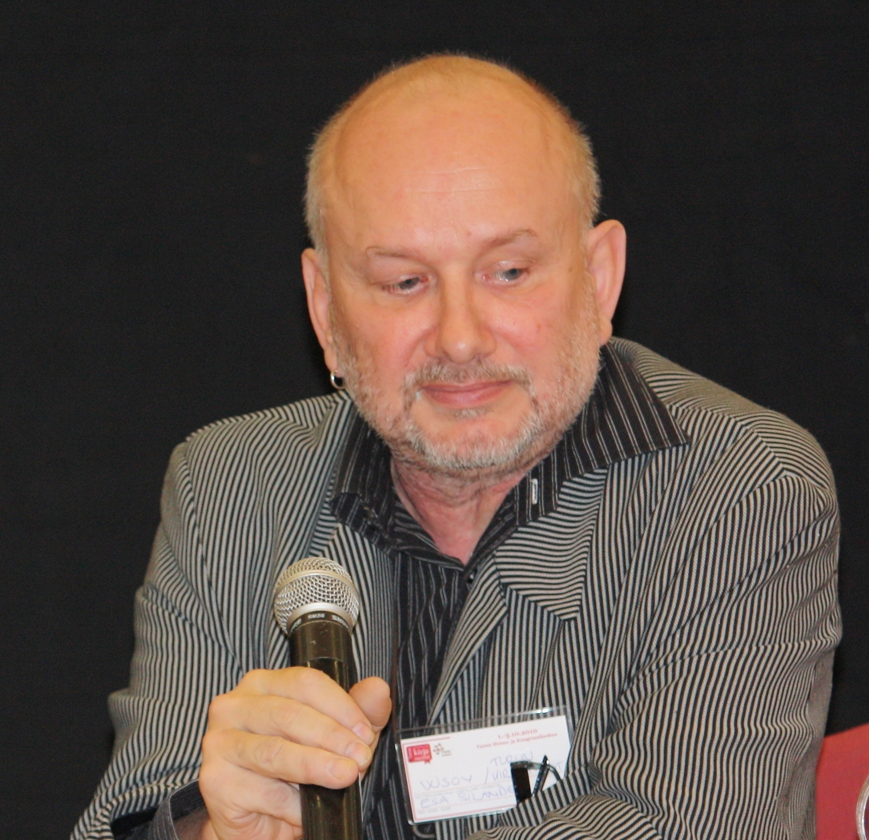 Finnish tv-journalist and producer Esa Silander at the Turku Book Fair 2010.